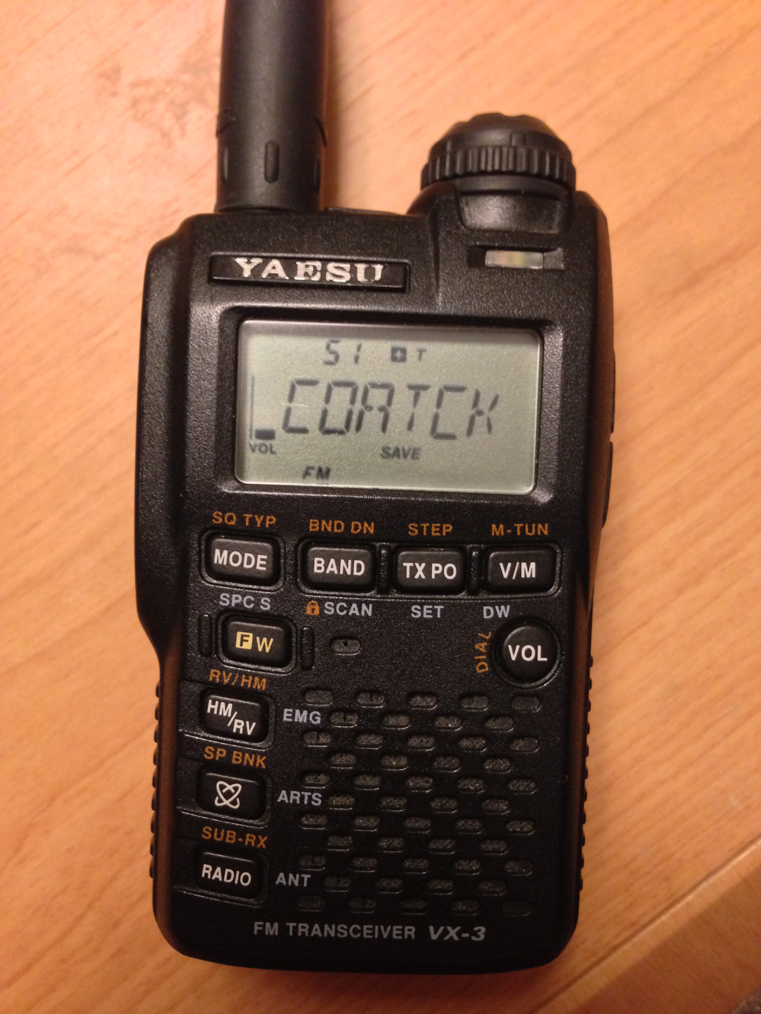 Yaesu VX-3R model handheld transceiver showing on the display an alphanumeric memory entry for a repeater in Coaticook, Quebec.